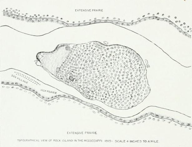 Topographical View of Rock Island in 1819